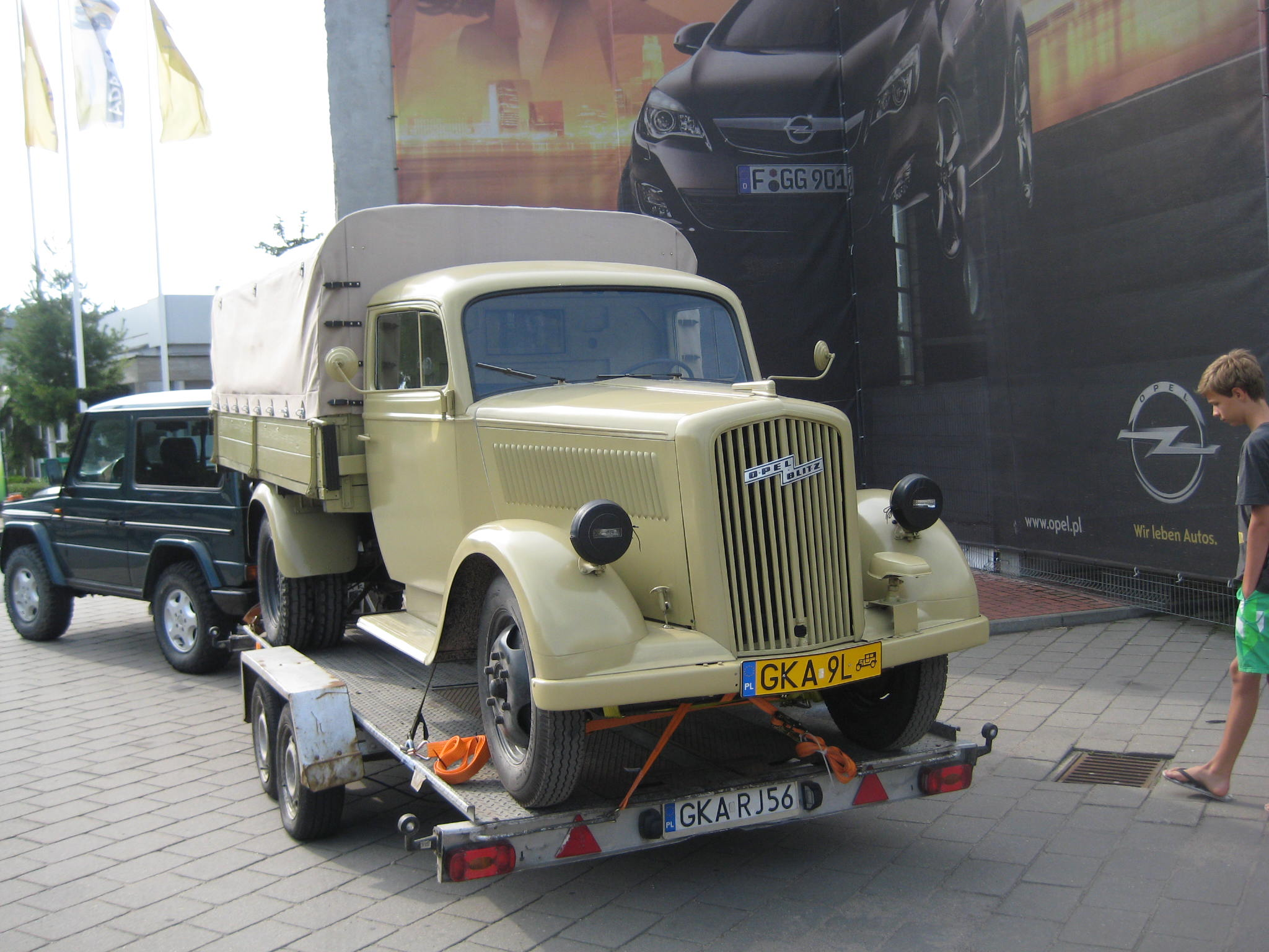 old Opel Blitz, probably from 2nd World War